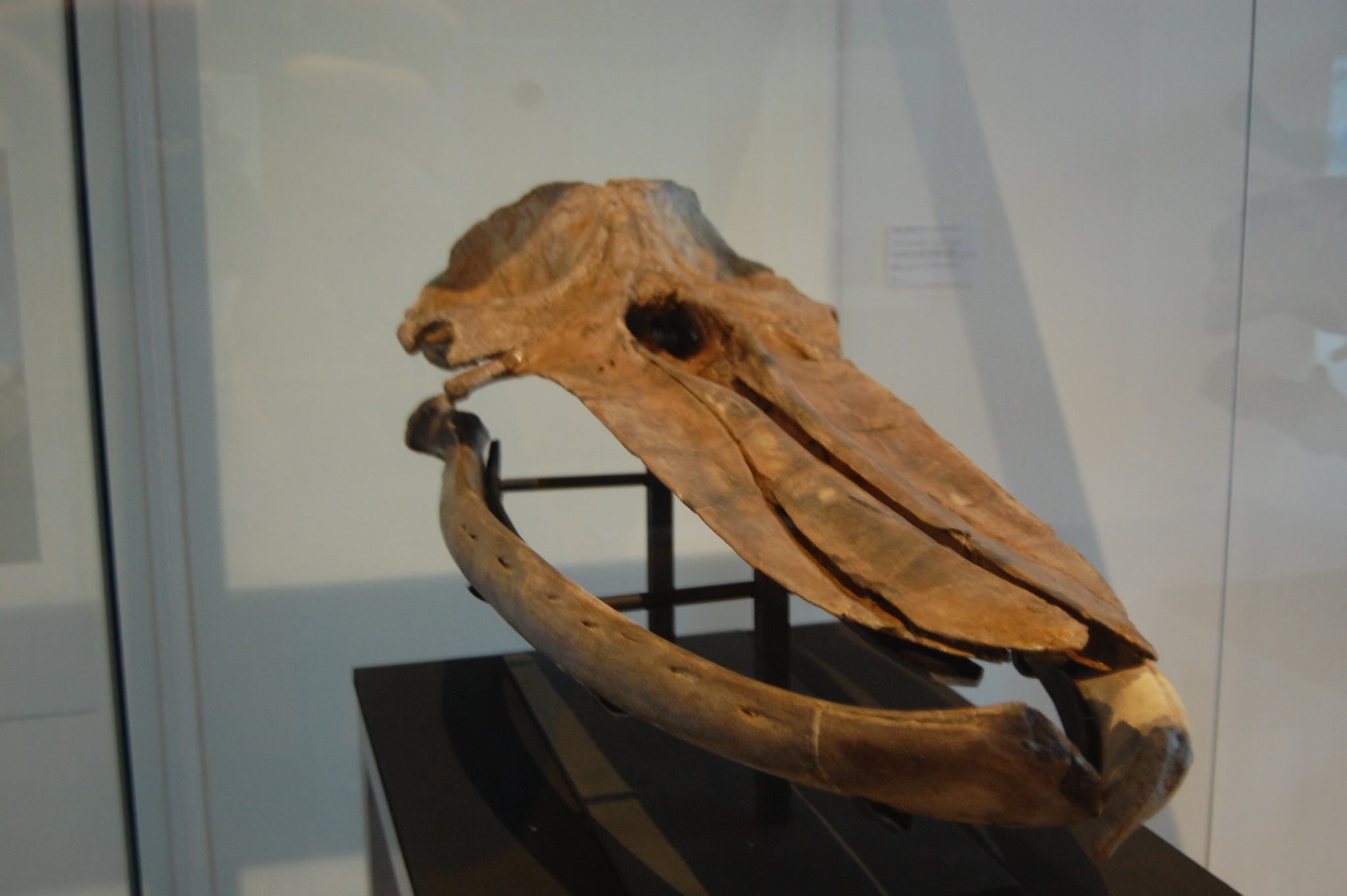 Skull of the fossil whale Piscobalaena nana.